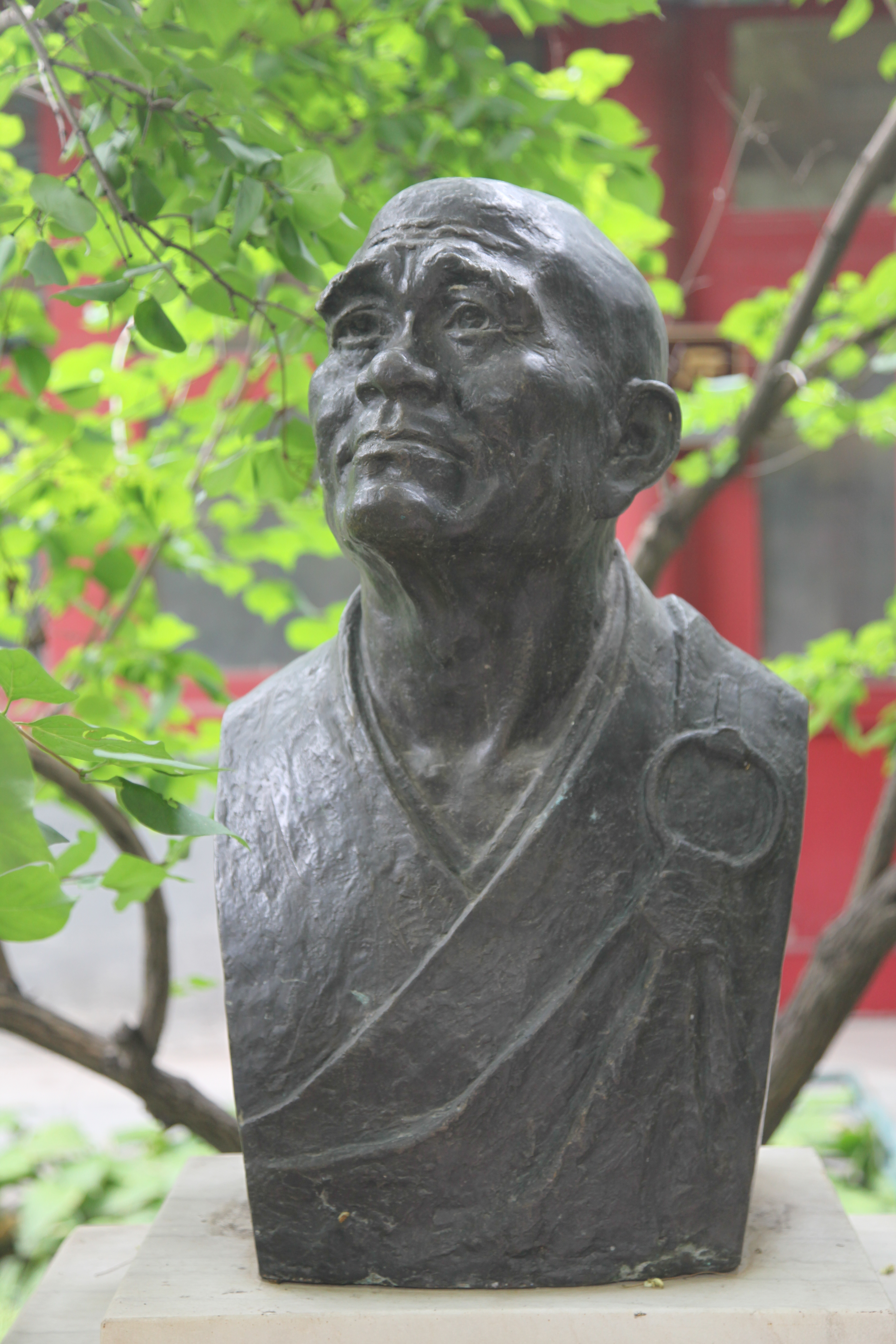 Exhibition description: Yi Xing (683-727AD) Yi Xing was an astronomer and Buddhist monk in the time of the Tang Dynasty. He is noted for inventing an inovative armillary sphere, the formulation of the ? Calendar and the correction of the distribution of the 24 solar terms based on solar movements.In 724 AD Yi Xing was put in charge of a terrestial-astromomical survey which successfully meassured the length of a protion of the meridian.